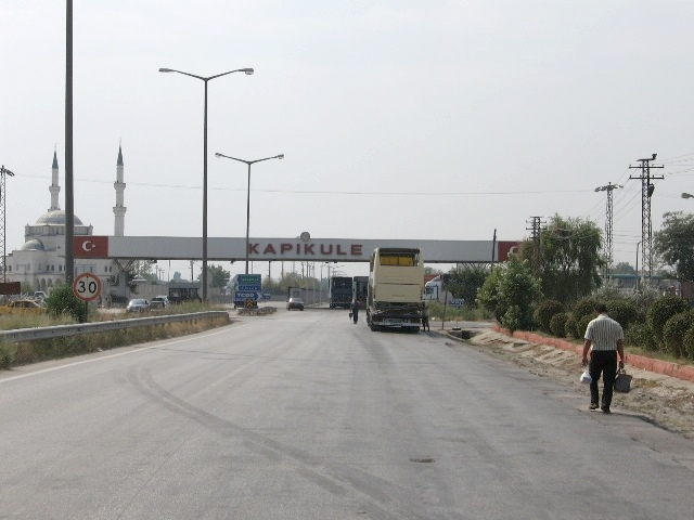 Kapikule, a Turkish border border crossing and checkpoint on the Turkish-Bulgarian border.